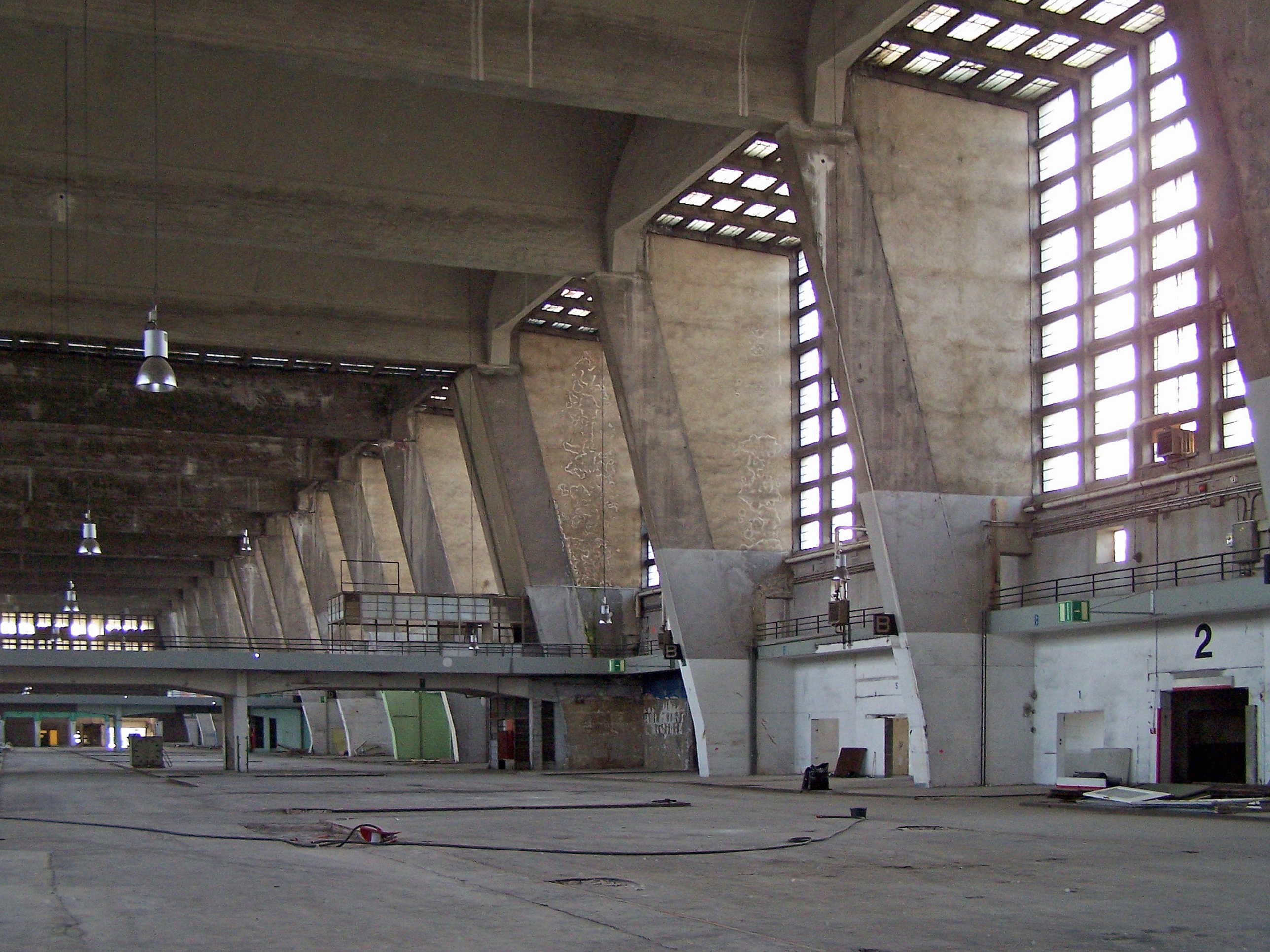 Northern wall inside the Großmarkthalle (Wholesale Market Hall) in Frankfurt am Main-Ostend, August 2009